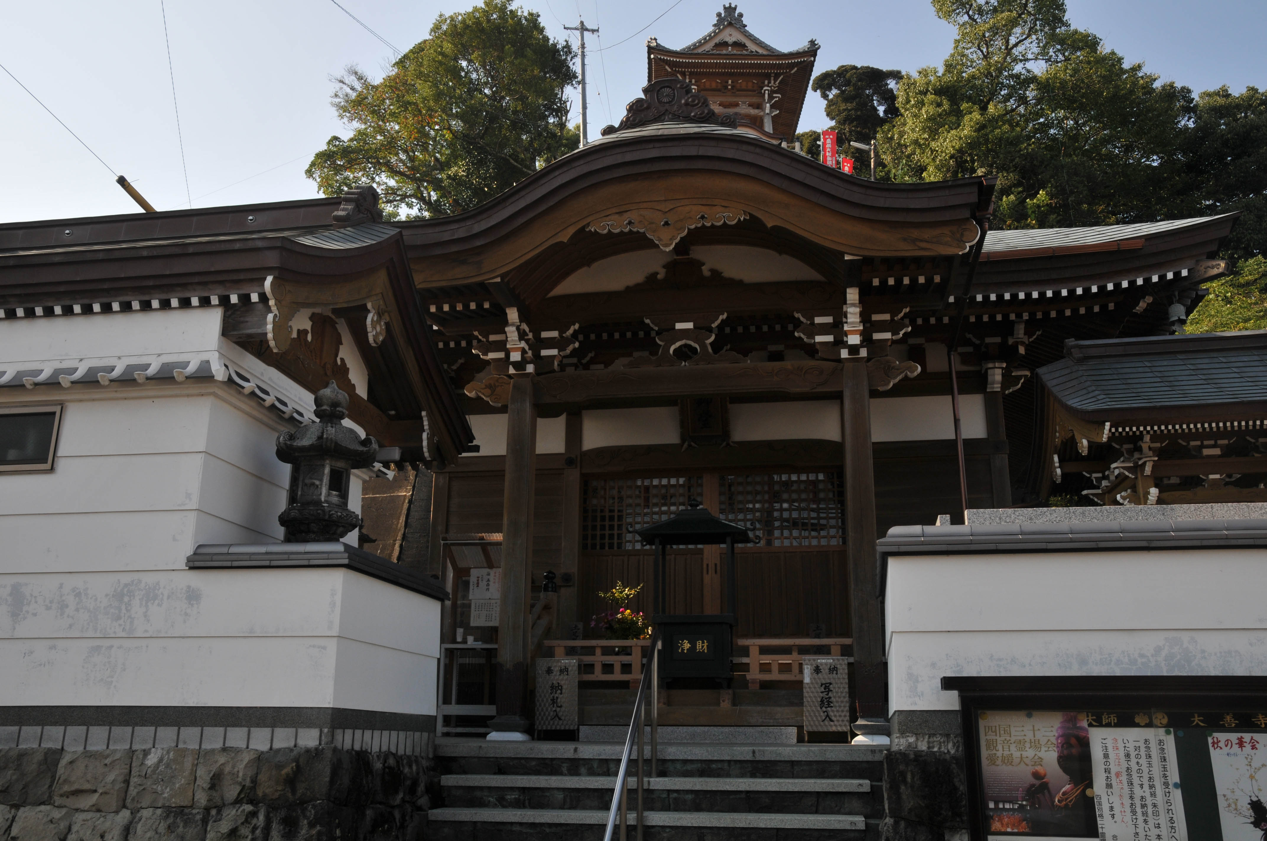 Daishi-dō, Daizen-ji